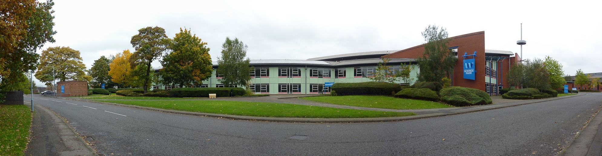 A panoramic image of Wolverhampton Science Park taken from Coxwell Avenue, Gorsebrook, Wolverhampton (25/10/2012)